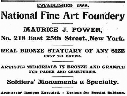 Advert for National Fine Art Foundry 1892